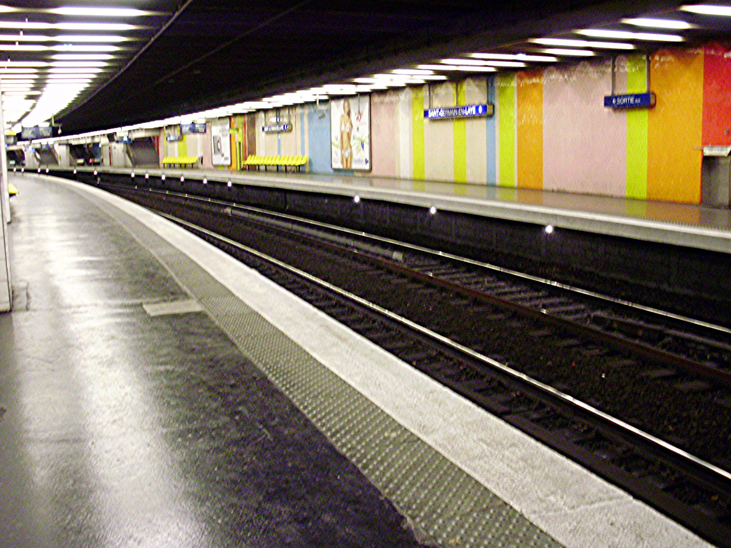 Saint-Germain-en-Laye station, Yvelines, France (platforms serving tracks 1 and 2)